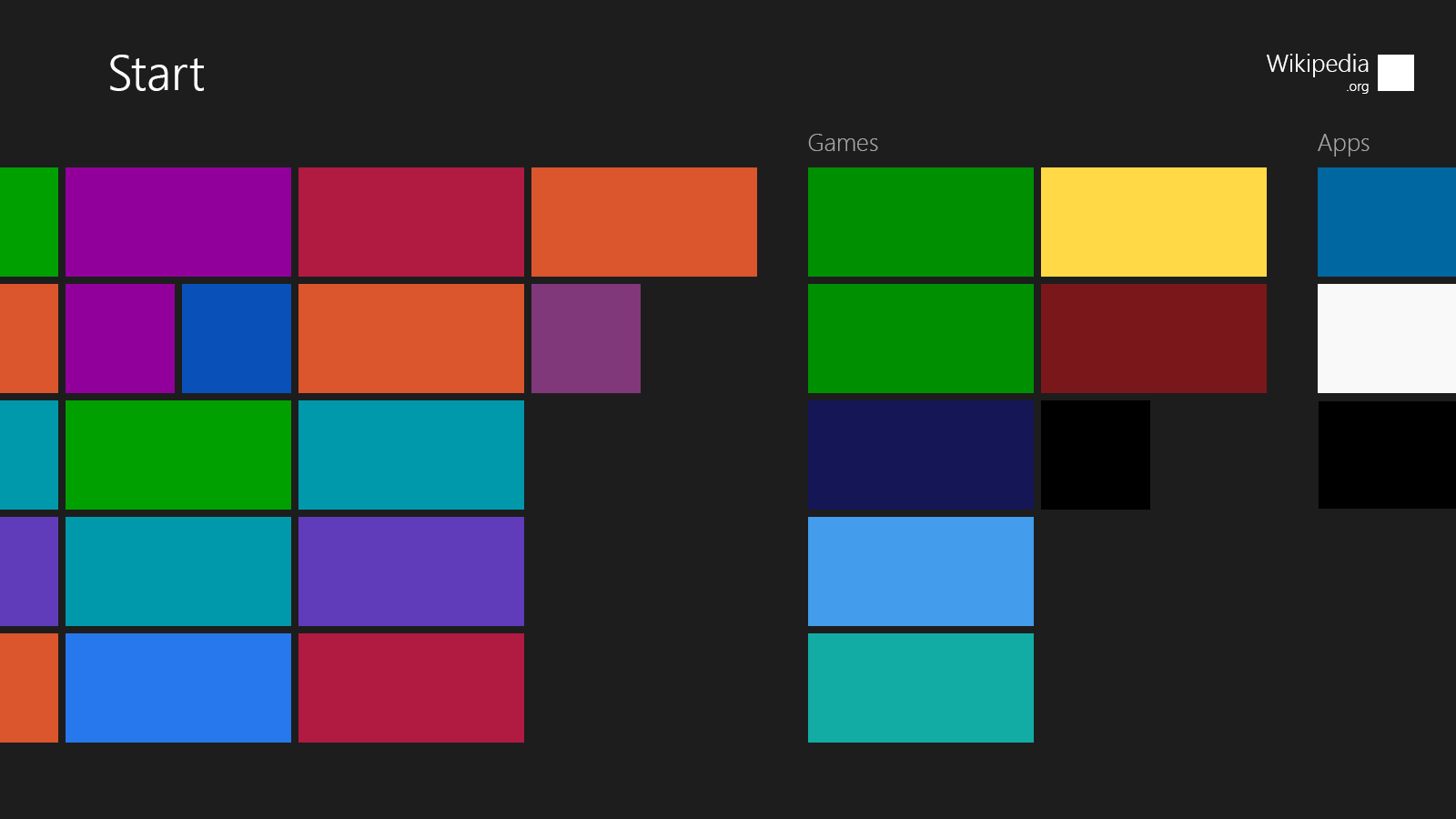 A simplified version of the Metro interface of Windows 8.